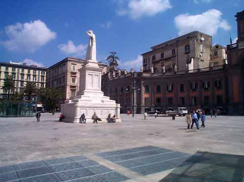 Private photo taken and uploaded by user Jeffmatt 07:00, 13 January 2007 (UTC)